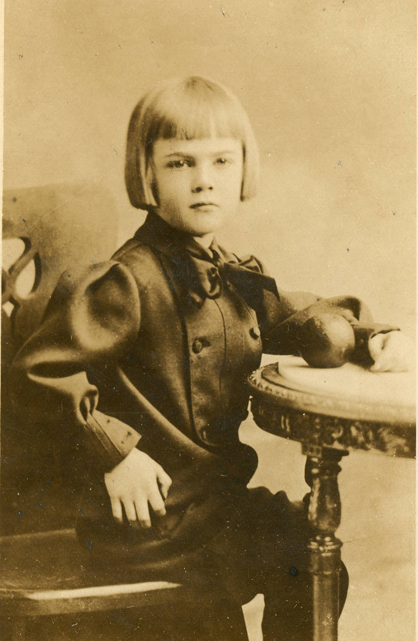 Stage juvenile Raymond Hackett. Subjects: children as actors